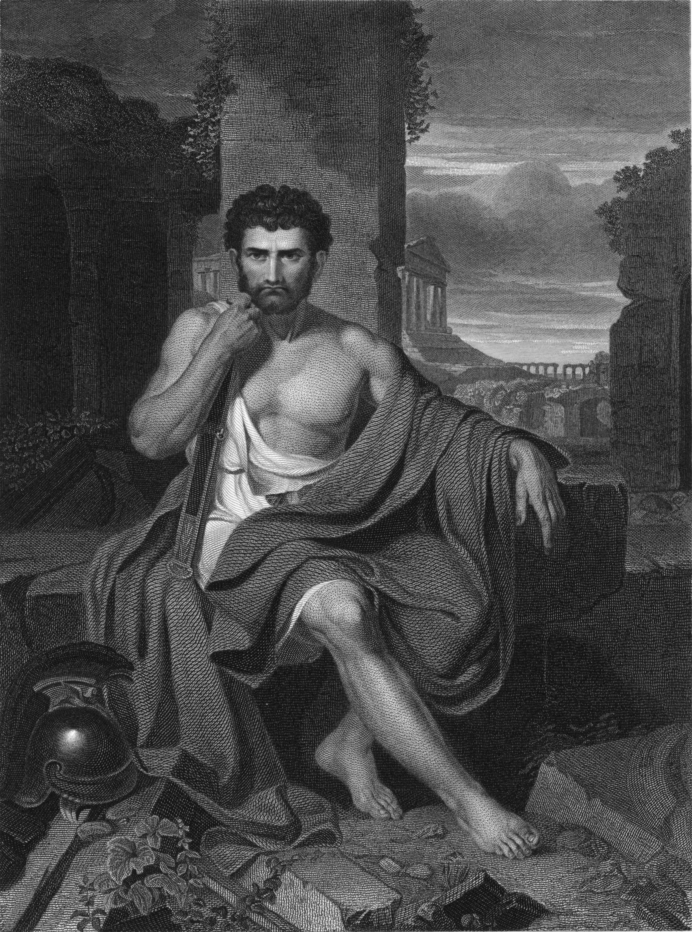 Caius Marius on the ruins of Carthage J. Vanderlyn pt. ; S.A. Schoff sc. SUMMARY: Print showing Gaius Marius, full-length portrait, seated, facing front, with ruins of Carthage behind him. MEDIUM: 1 print : engraving. CREATED/PUBLISHED: New York : Apollo Association for the Promotion of Fine Arts in the United States, 1842.